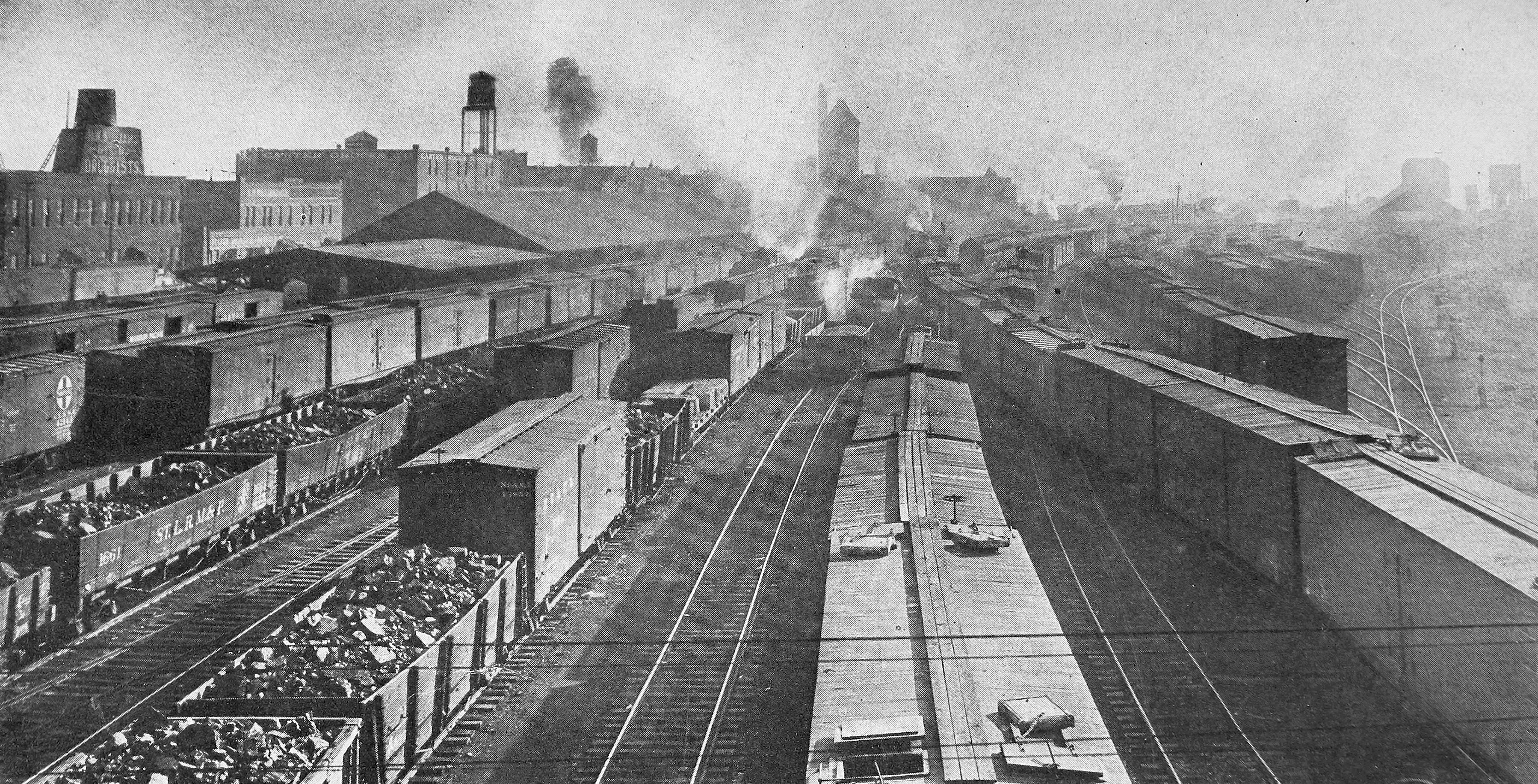 Texas and Pacific Railway yard in Fort Worth, Texas. Title: Book of Texas Year: 1916 (1910s) Authors: Benedict, Harry Yandell, 1869-1937 Lomax, John A. (John Avery), 1867-1948 Subjects: Texas Texas -- Economic conditions Publisher: Garden City, N.Y. : Doubleday, Page Text Appearing Before Image: From the towns that enjoyed water transportation primitive roads scattered in various directions. The Republic of Texas made a few feeble efforts to build roads, but the chief thing that was done was to pass a law that the stumps in the roads should not be over twelve inches high. Stages carried passengers, ox wagons hauled freight. When railroads began to be built, their interior terminals became centres of radiating overland traffic. By 1860 there were thirty stage lines, including one from San Antonio to San Diego, California, and one from Sherman to St. Louis. Freighting, mainly with ox wagons, became the permanent occupation of some and the incidental amusement of whole neighborhoods who went to Jefferson or Houston with cotton, to come back loaded with other necessaries. For a long time the fertile Black Prairie country, whose dirt roads are so unpassable when wet, was left undeveloped agriculturally because of the lack of transportation. Freight cost 20 cents per mile per ton, just twenty times the present average railroad rate. Photo Caption A Portion of the Texas and Pacific Tracks at Fort Worth